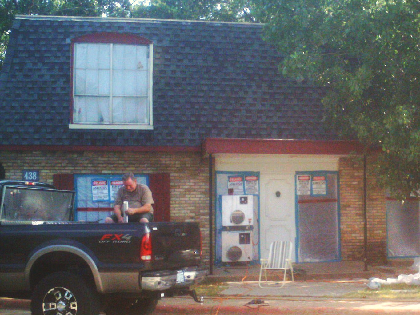 We are removing asbestos before demolishing the Imperial Courtyard Apartments in Irving, Texas.